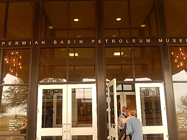 I took photo with Nikon camera of entrance to Permian Basin Petroleum Museum in Midland, TX.